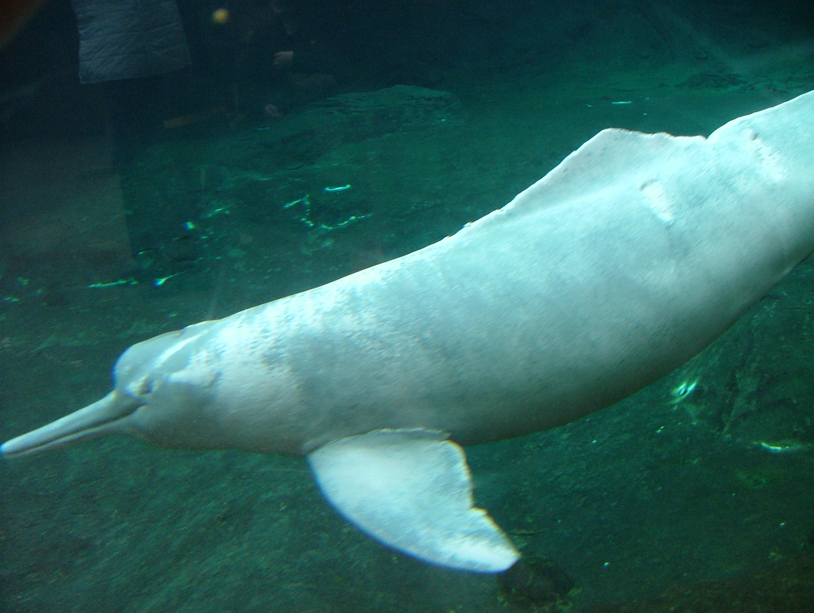 Boto, Amazon River Dolphin (Inia geoffrensis) named Orinoko at Zoo Duisburg, Germany